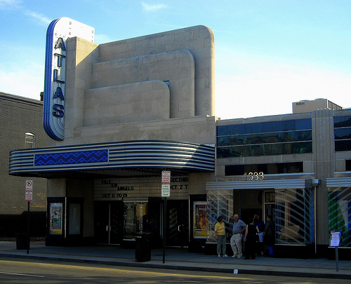 Atlas Performing Arts Center at 1333 H Street, NE in the Near Northeast neighborhood of Washington